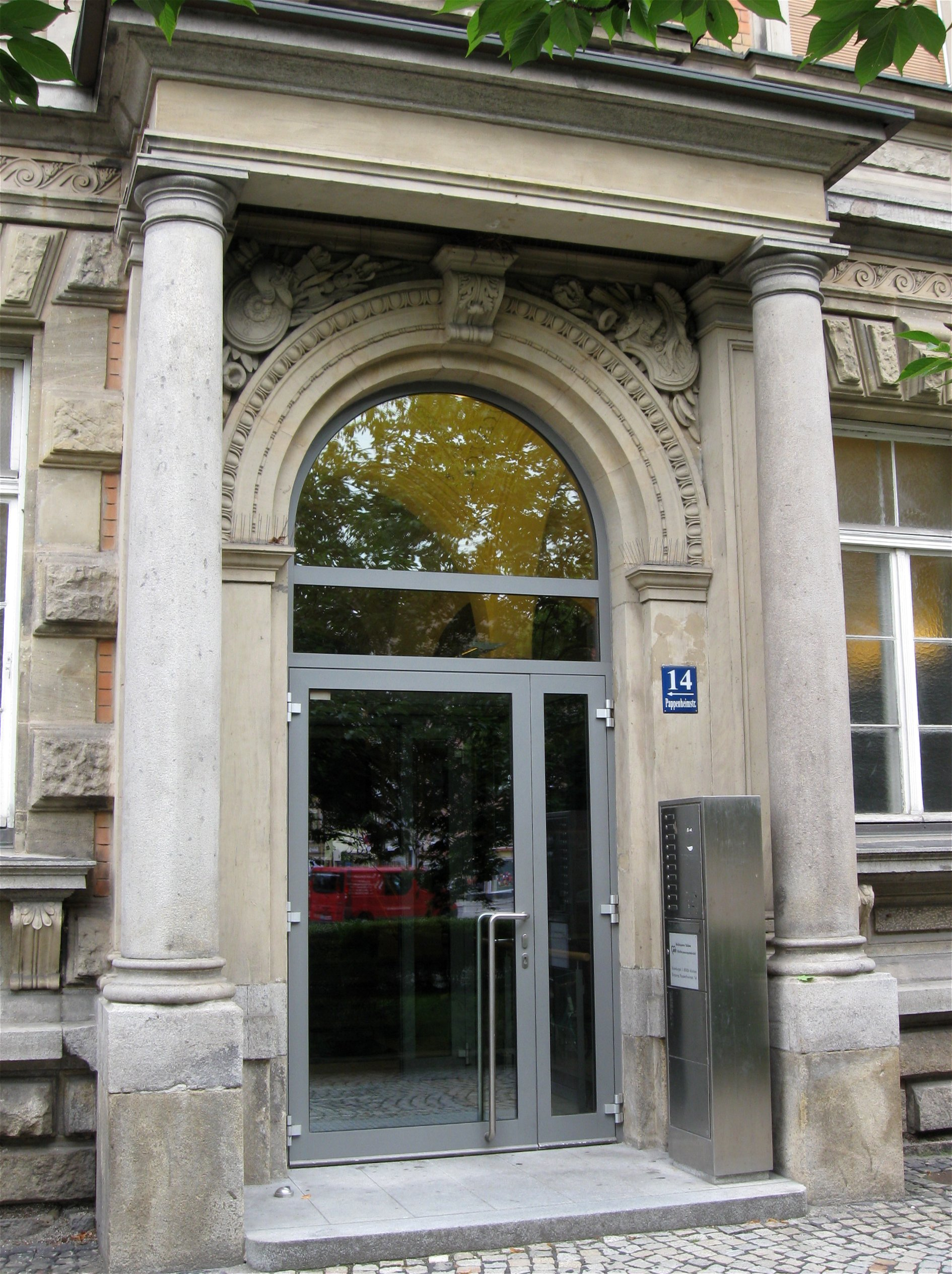 Munich, street Pappenheimstrasse 14; former Bavarian war academy, a rich structured avant-corps new-renaissance building, built 1889–90 by Gustav Freiherr von Schacky, 1949 rebuilt as urban hospital, today German Telekom.